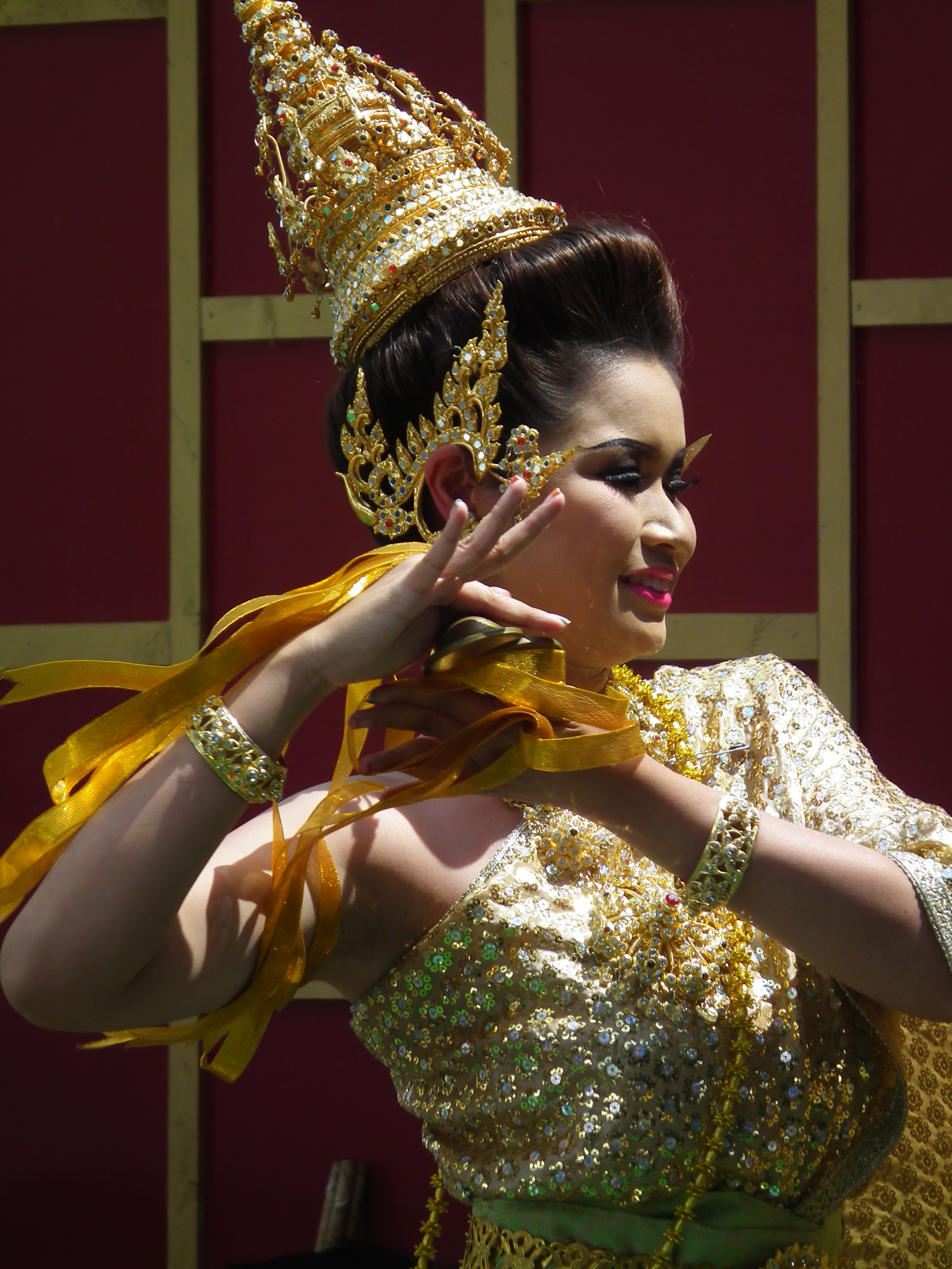 Wat Thai Village DC 2013